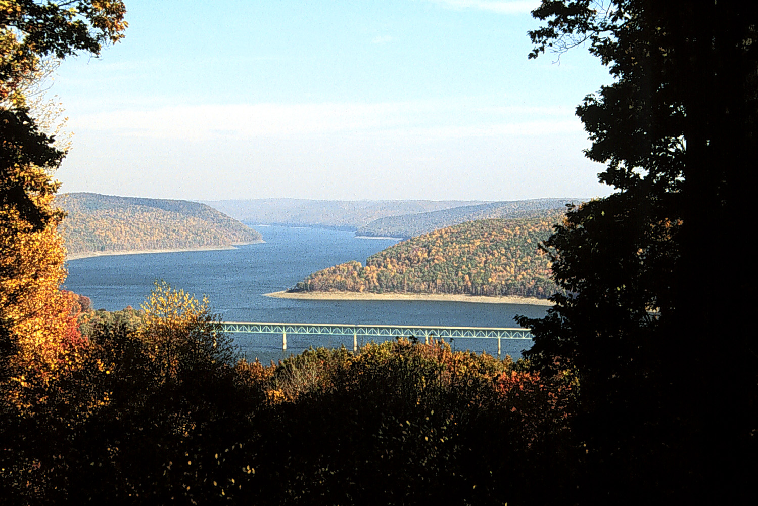 Allegheny Reservoir behind Kinzua Dam on the Allegheny River in Warren County, Pennsylvania, USA. Pennsylvania State Route 59 crosses the reservoir on a bridge.